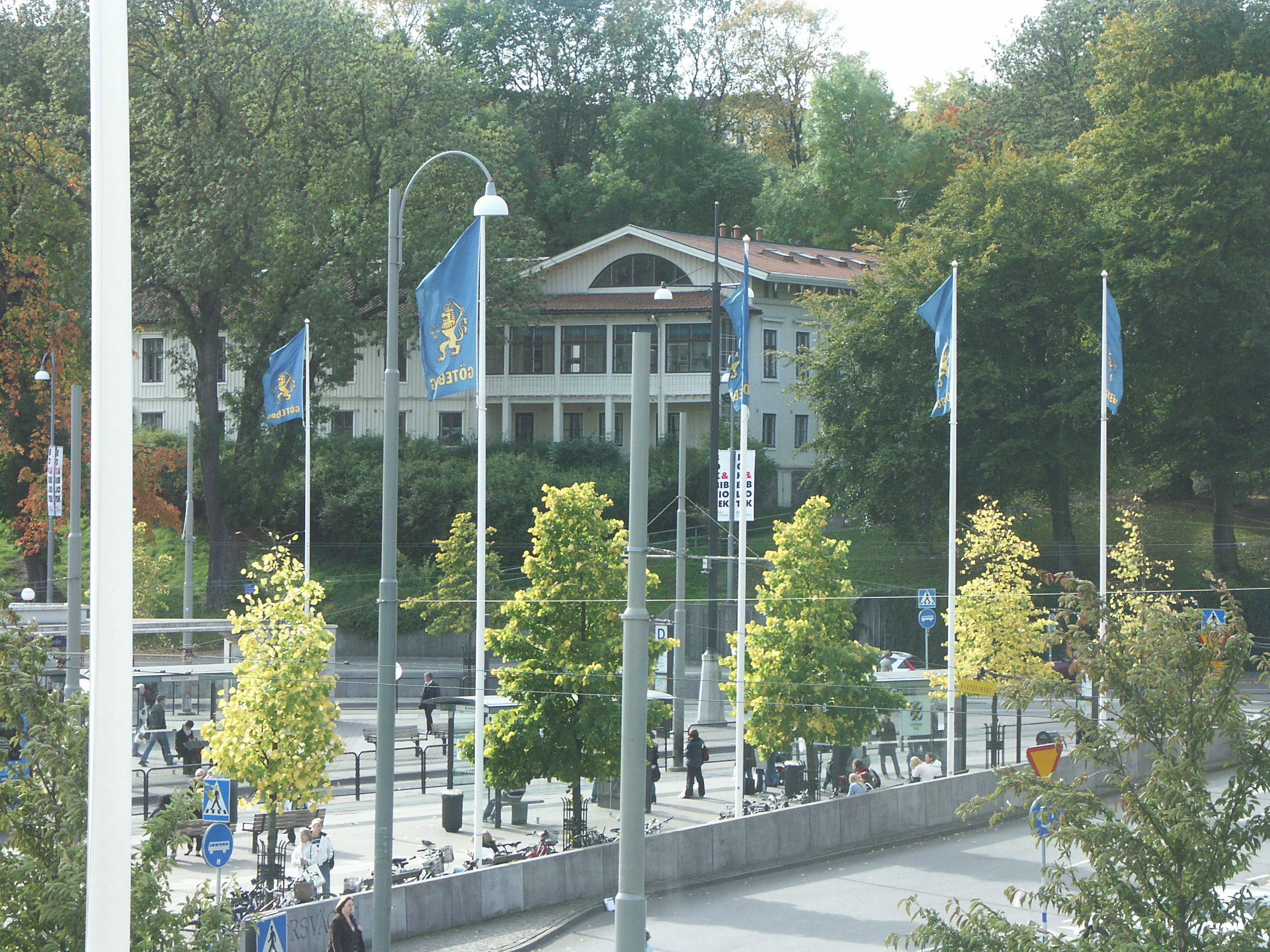 Johannebergs landeri is an old building at Korsvägen in Gothenburg.